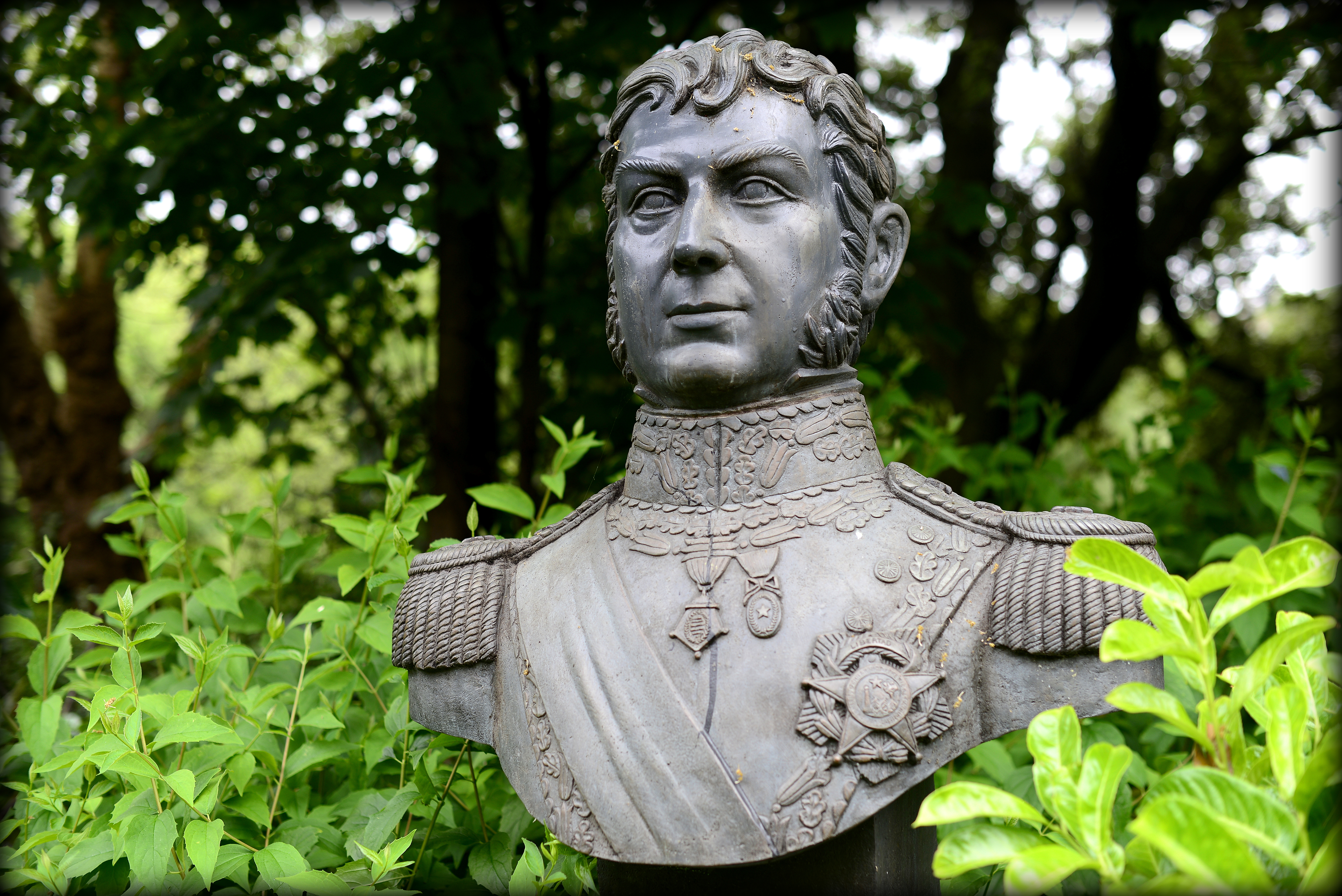 This bust of Mr. Bernardo O' Higgins lies within the heart of Merrion Square, Dublin, Republic of Ireland. It reads "Bernardo O' Higgins. Borne Chile 1778 - Died Peru 1842. Liberator of Chile. Captain General and Statesman. The Republic of Chile to Ireland 1995."